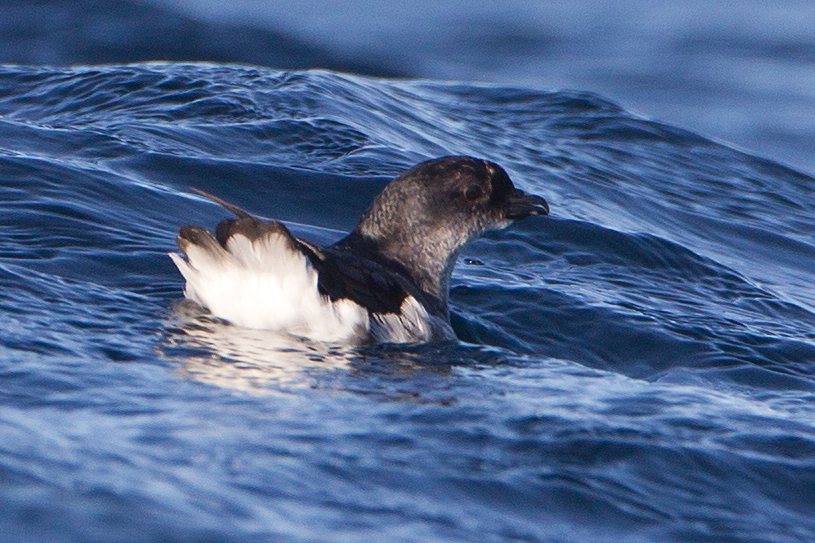 Common Diving Petrel (Pelecanoides urinatrix), East of the Tasman Peninsula, Tasmania, Australia